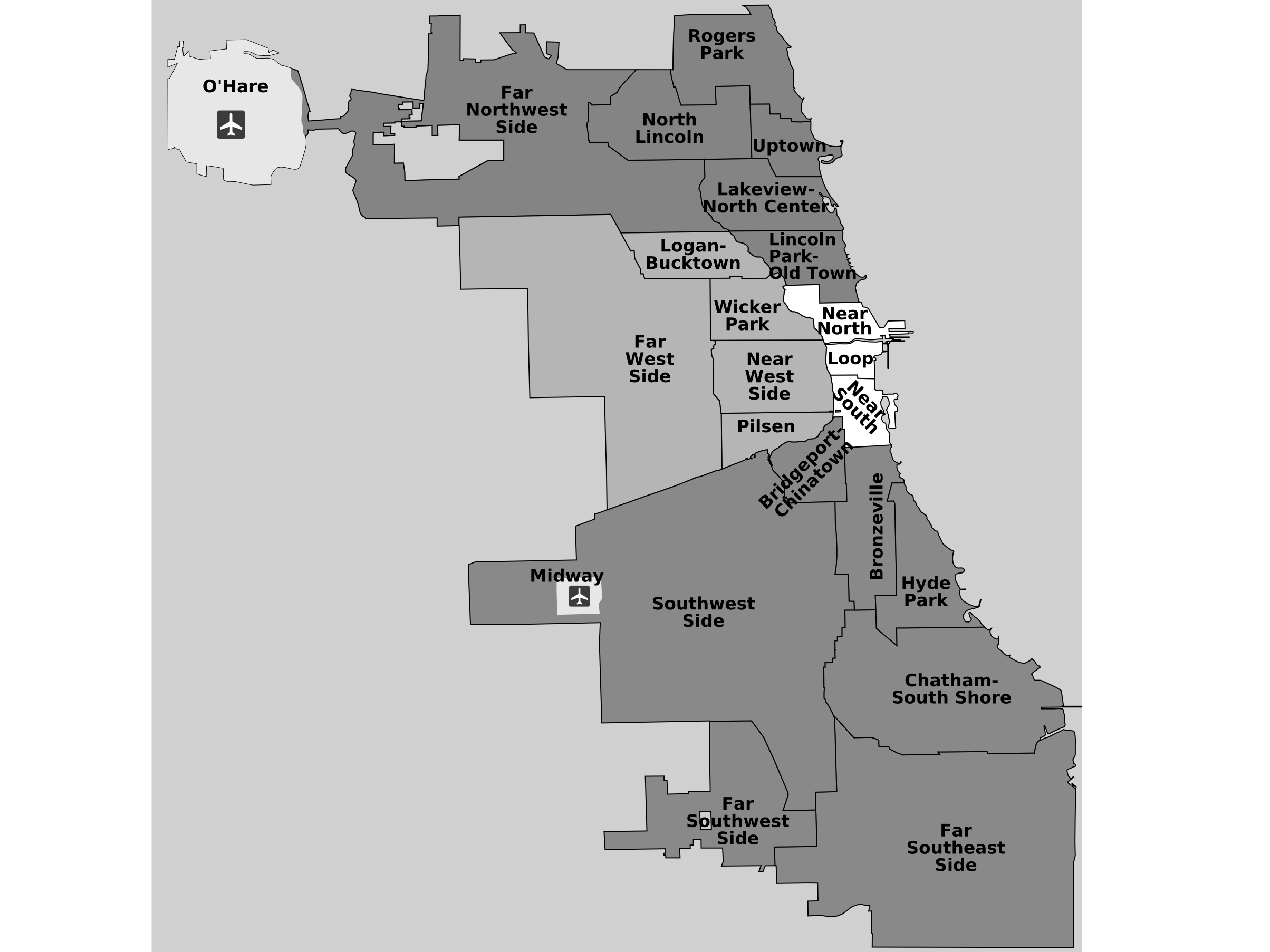 Districts of Chicago Map. Print version, sides by shade, subdivisions outlined and labeled, Chicago.